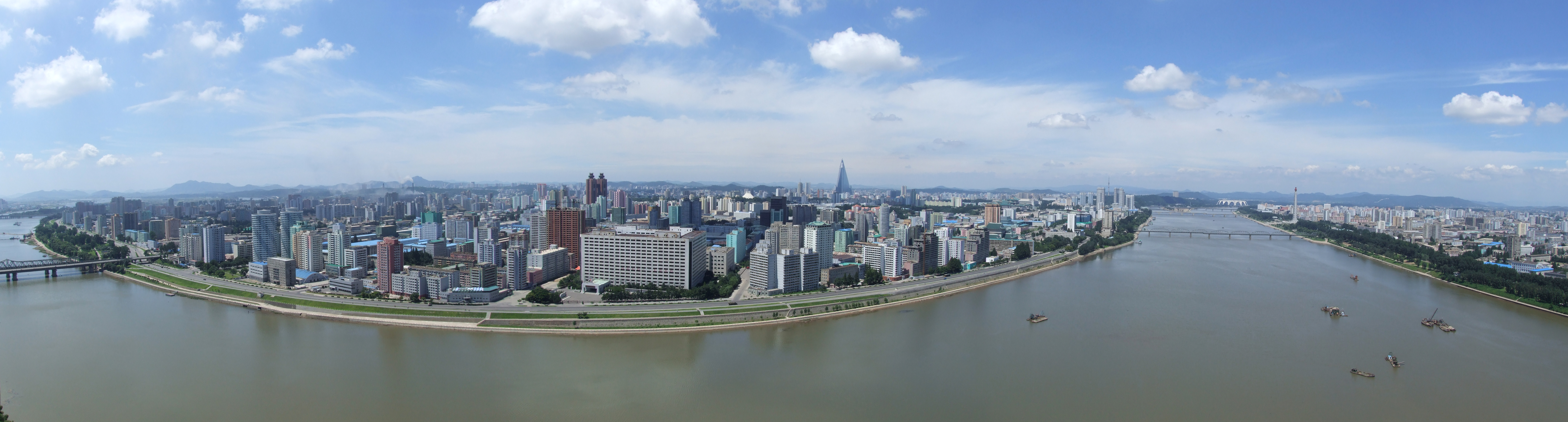 Panorama of Pyongyang, North Korea